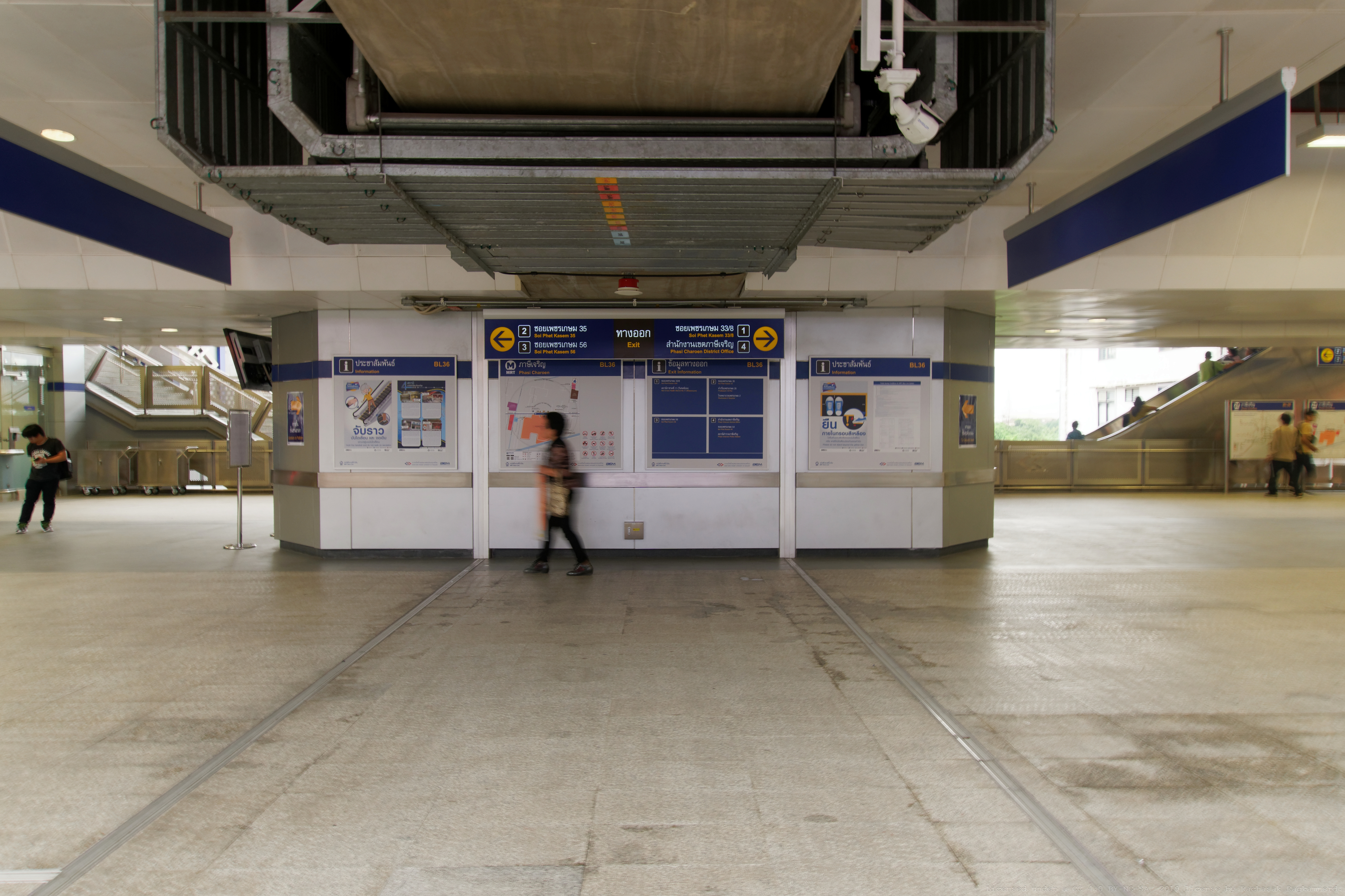 MRT Phasi Charoen station: hallway with signs for information about the route, nearby places, and the exit.